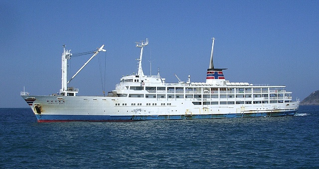 Camellia Maru (Tokai Kisen, a photograph from the Niijima port, Tokyo, JAPAN) IMO Number: 8508694 Callsign: JG4619 Length: 103 m Beam: 15 m